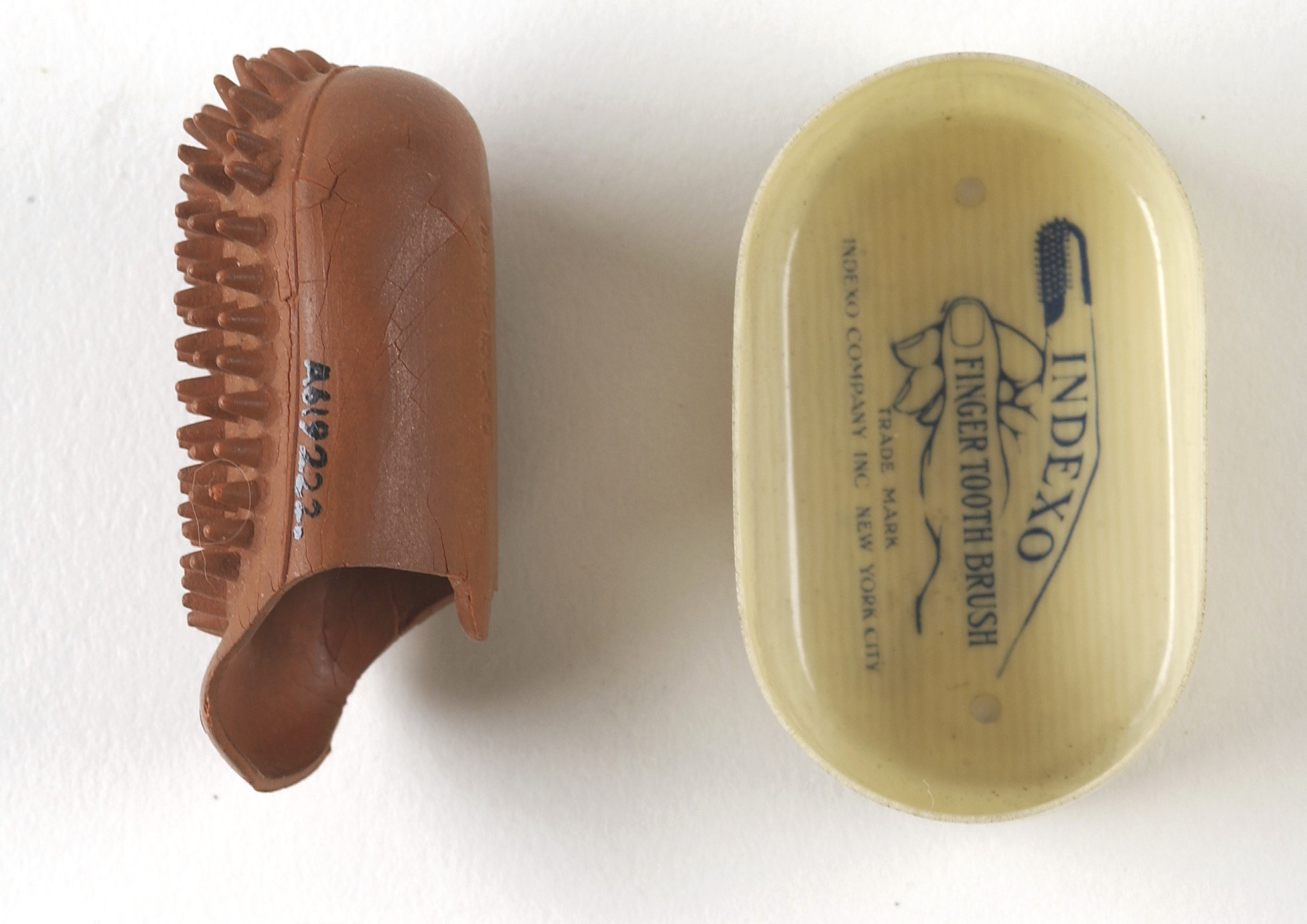 'Indexo Finger Touthbrush' and its plastic box made by Indexo Company, New York City Wellcome Images Keywords: Product; Tooth; Americas; Hygiene; Teeth; America